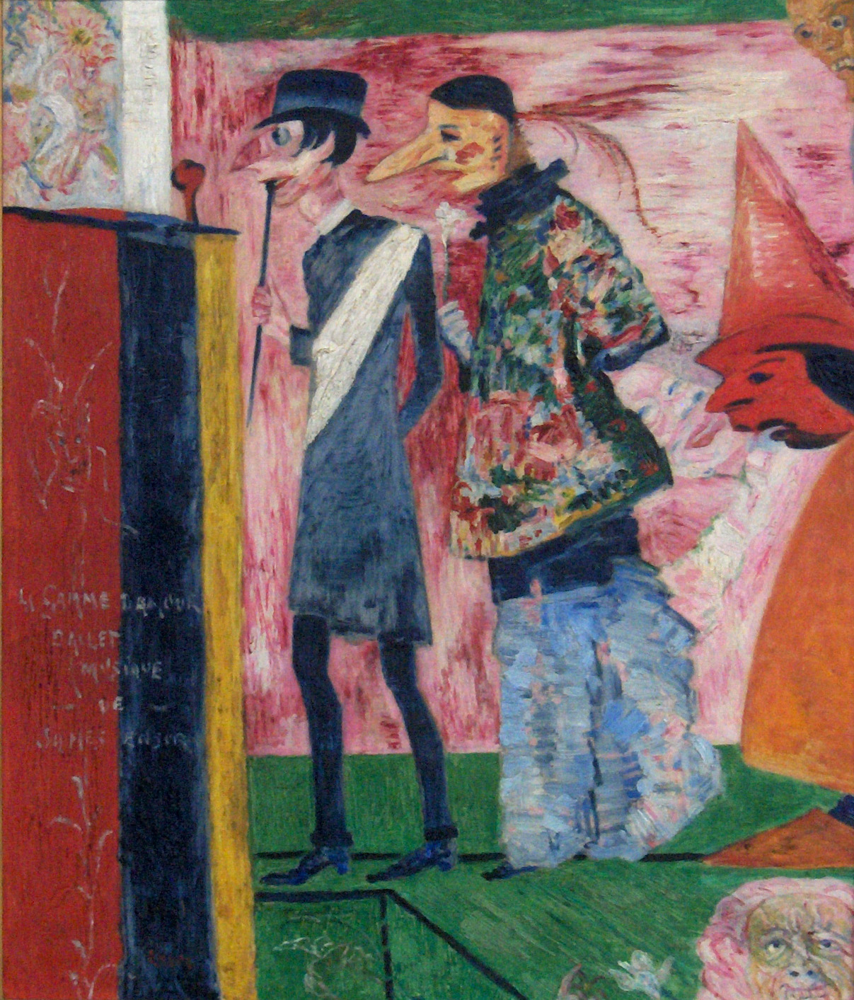 Personnages for the poster "La Gamme d'Amour" (1914) by James Ensor (1860-1949)